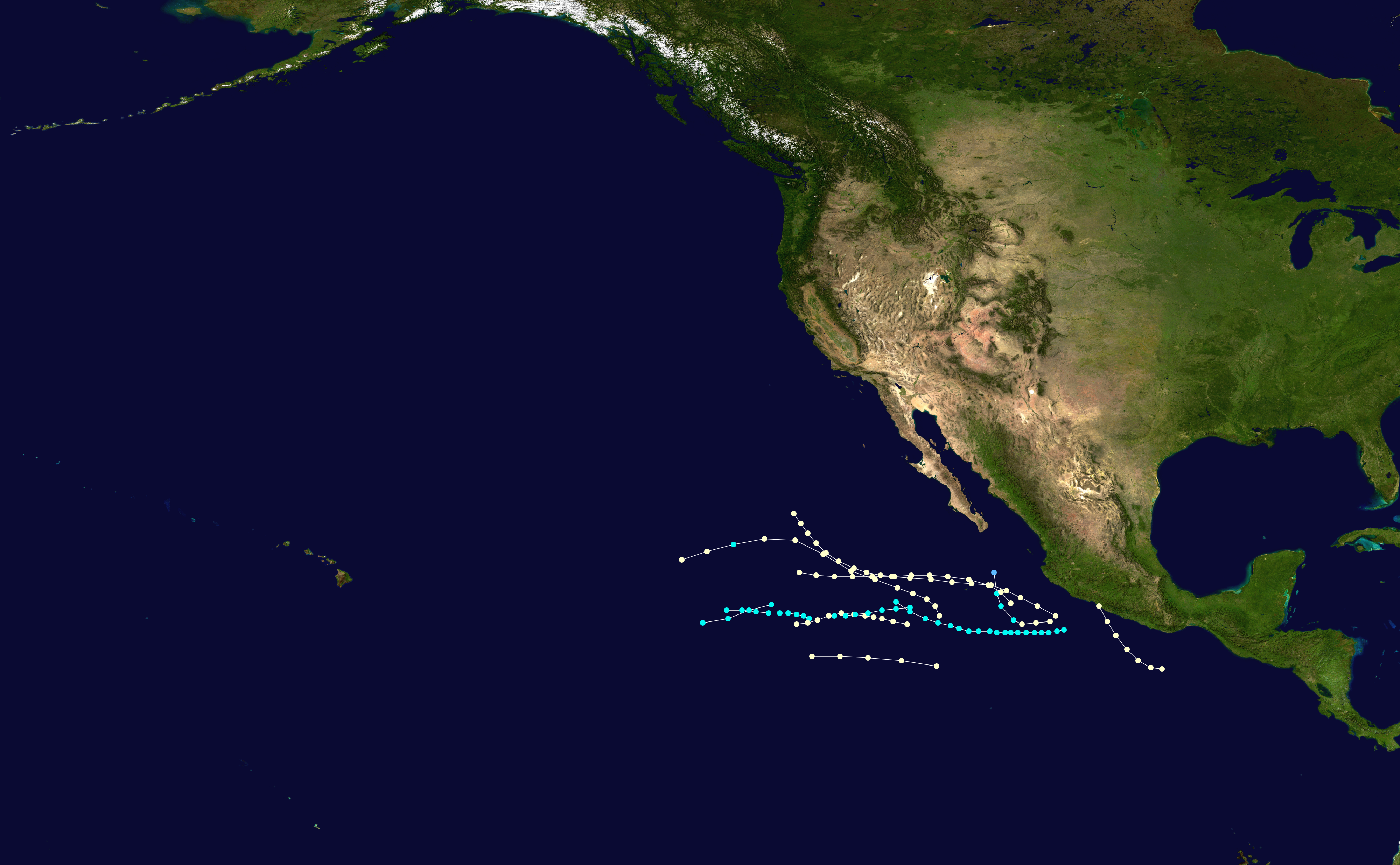 This map shows the tracks of all tropical cyclones in the 1956 Pacific hurricane season. The points show the location of each storm at 6-hour intervals. The colour represents the storm's maximum sustained wind speeds as classified in the Saffir-Simpson Hurricane Scale (see below), and the shape of the data points represent the type of the storm. Saffir–Simpson hurricane wind scale Tropical depression≤38 mph≤62 km/h Category 3111–129 mph178–208 km/h Tropical storm39–73 mph63–118 km/h Category 4130–156 mph209–251 km/h Category 174–95 mph119–153 km/h Category 5≥157 mph≥252 km/h Category 296–110 mph154–177 km/h Unknown Storm typeTropical cycloneSubtropical cycloneExtratropical cyclone / Remnant low / Tropical disturbance